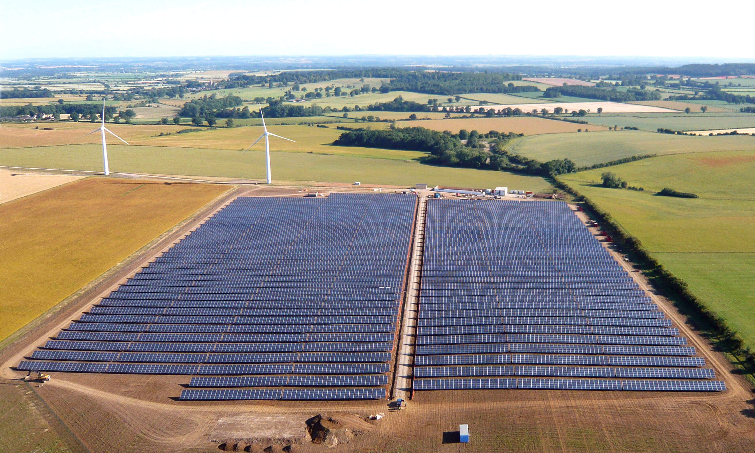 Aerial view of Westmill Solar Farm with part of Westmill Wind Farm in the background